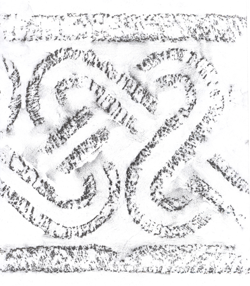 Gravure of the pylon ornament on the top of basis of the Oshki cathedral, in Tao-Klarjeti, in Turkey